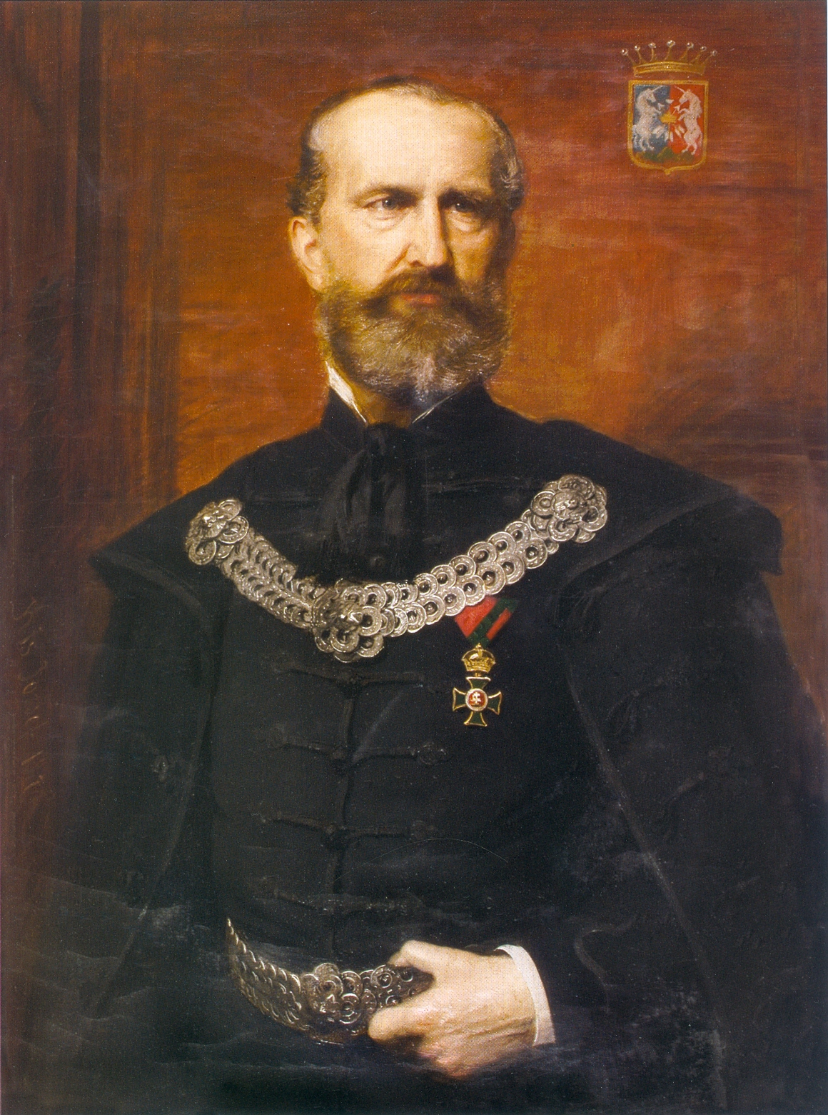 Baron Dénes Mednyánszky de Mednye et Medgyes (1830–1911), Hungarian geologist, comes of County of Trencsén.